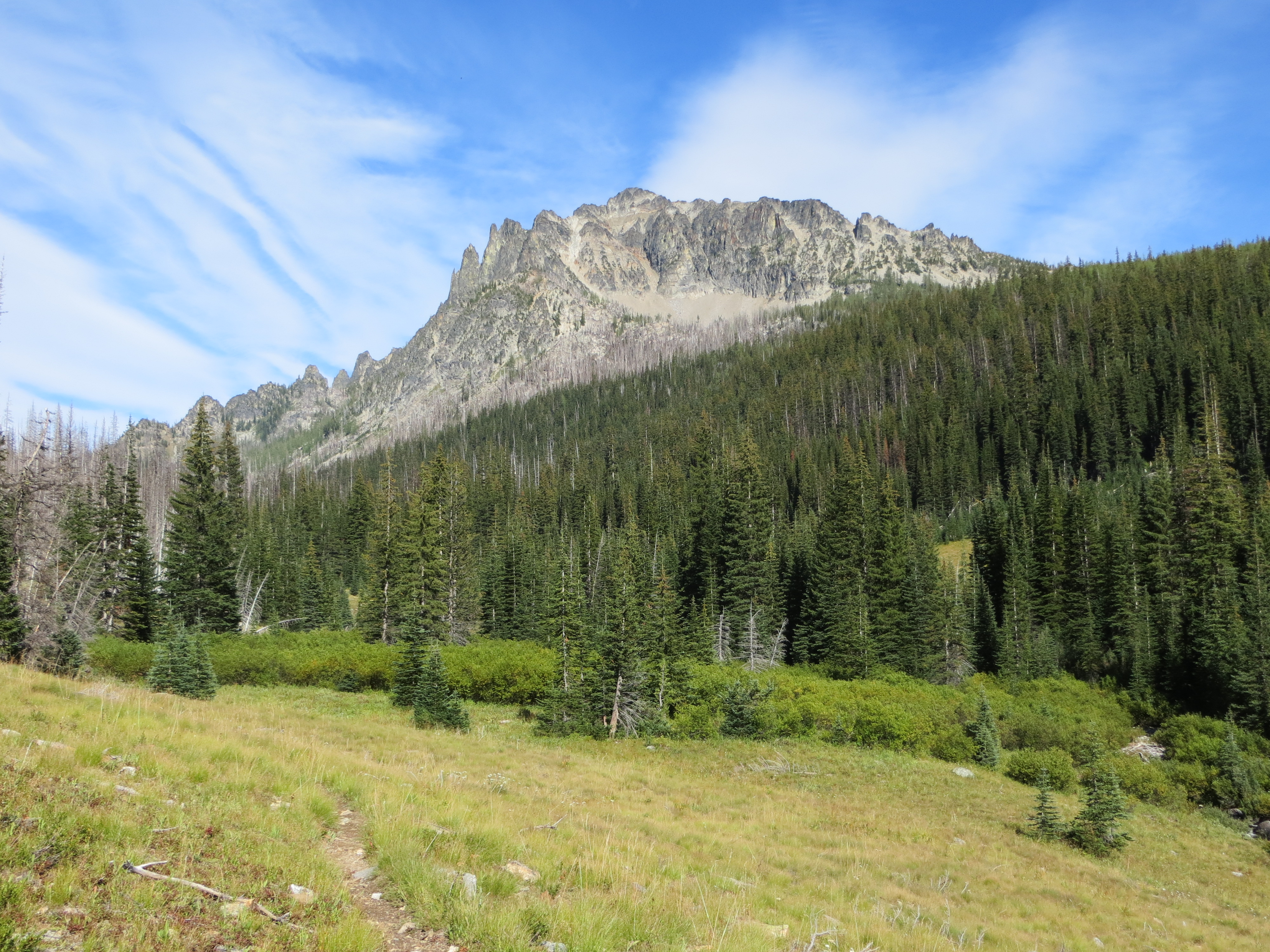 Saska Peak seen from Snow Brushy Creek Trail en route to Milham Pass, by Patrick Herman 2013